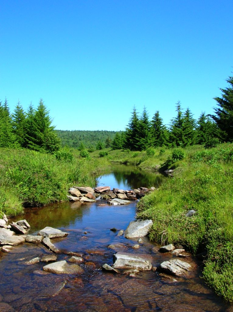 Upper Red Creek area of Dolly Sods Wilderness.